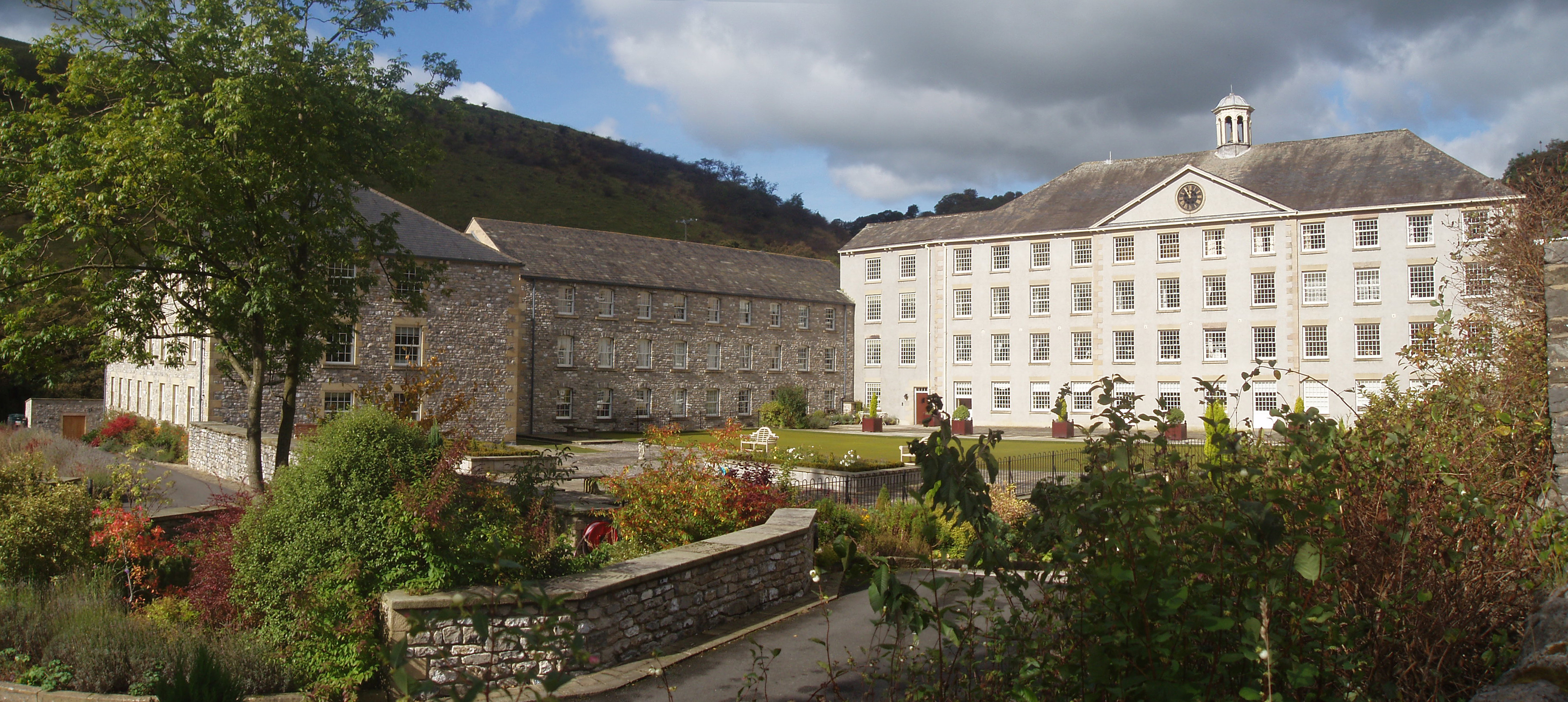 Cressbrook Mill from the road from the southern side